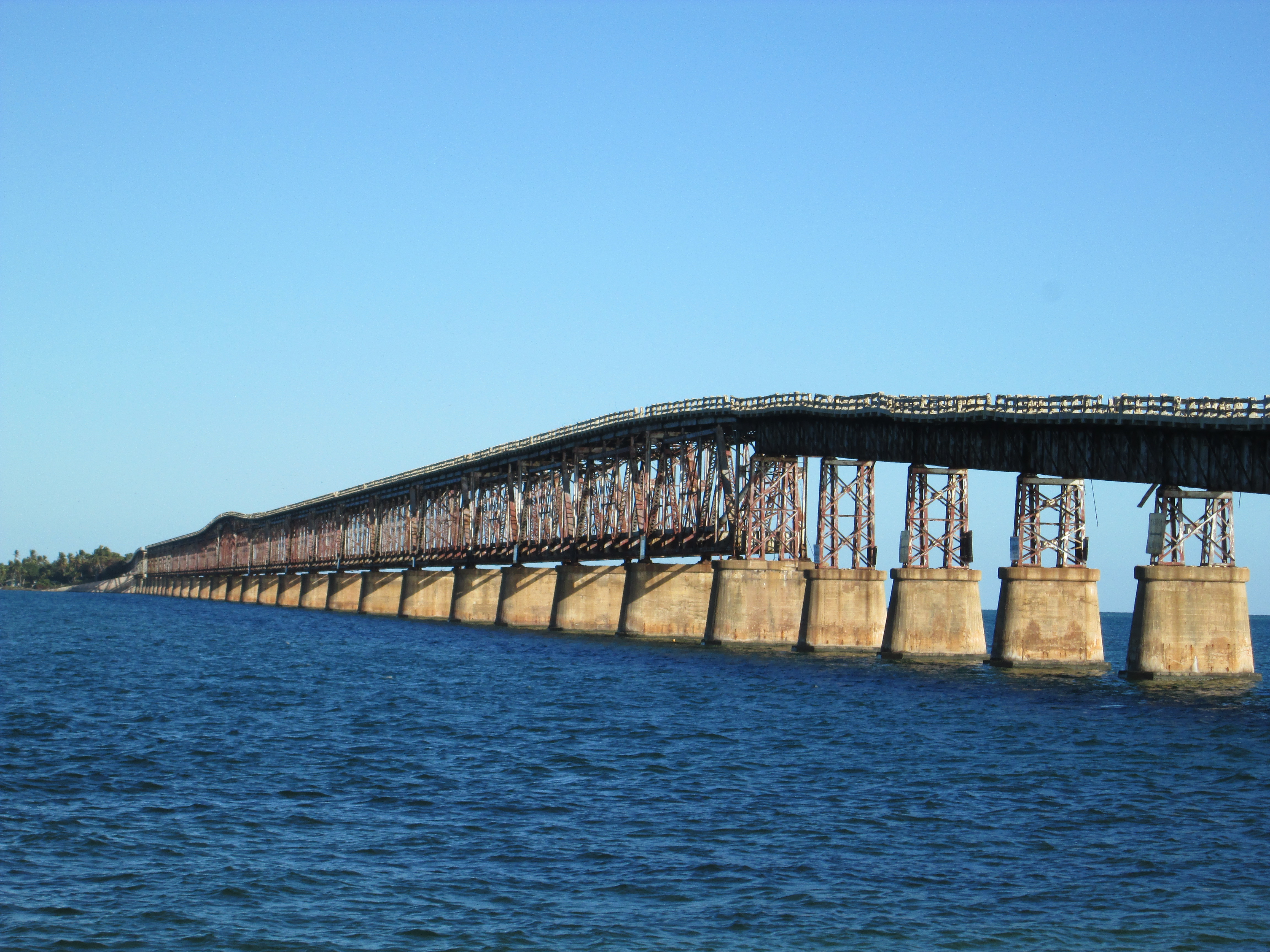 Old Bridge at Bahia Honda State Park, Key´s, Florida Photo taken by my own at 11/27/2012